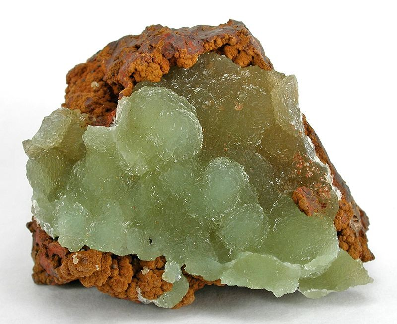 Austinite Locality: Ojuela Mine, Mapimí, Municipio de Mapimí, Durango, Mexico (Locality at ) Size: 9.1 x 7.0 x 7.0 cm. This is a large specimen with a thick and rich carpet of sparkling austinite, crystallized into rounded aggregates.